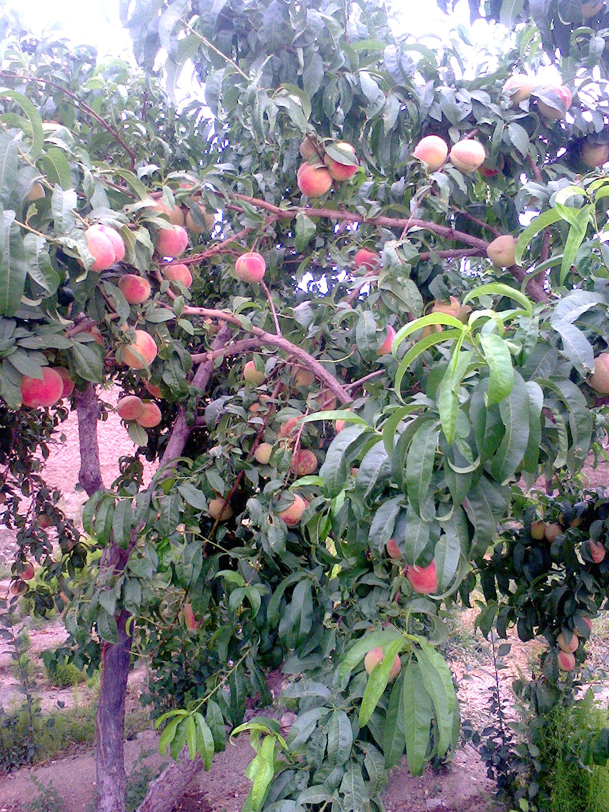 peach tree in Bala Niganda